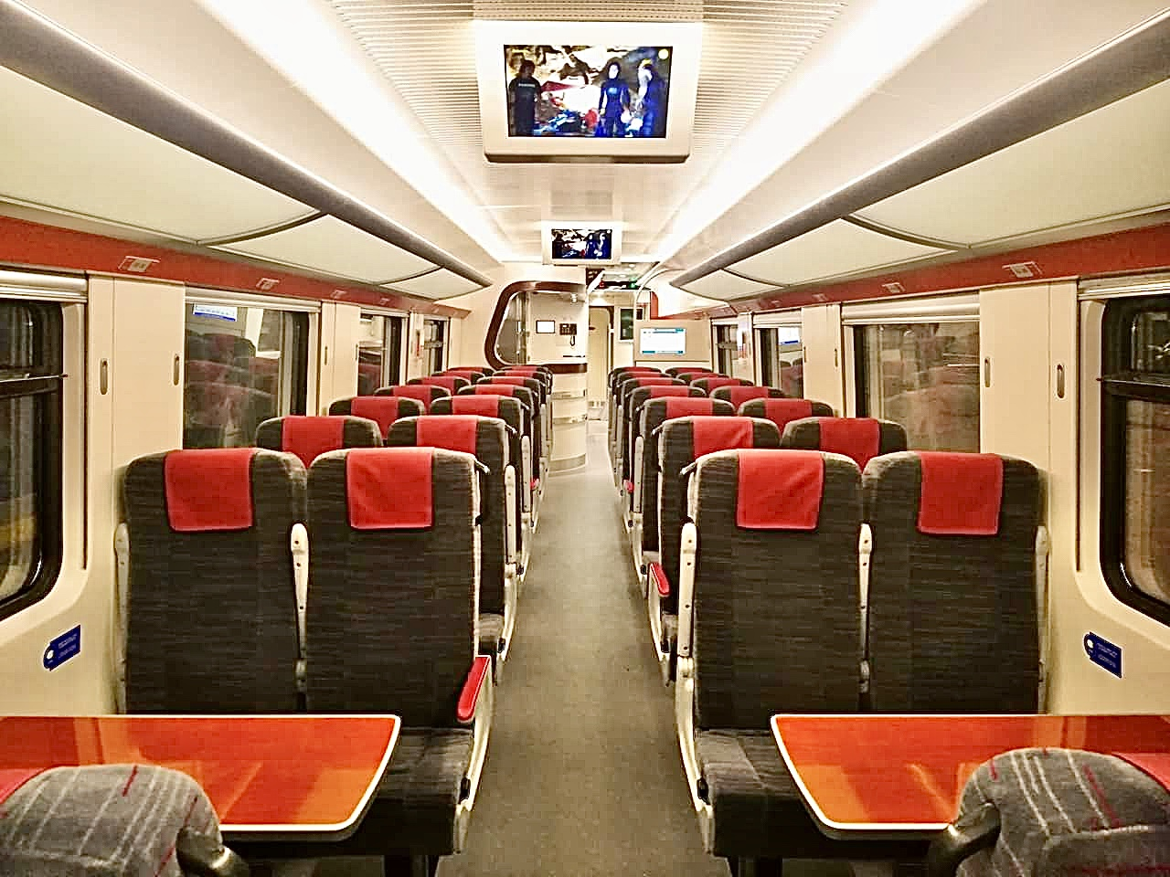 Interior of ets2